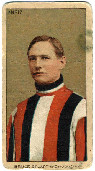 Bruce Stuart These cards were placed in cigarette packages c. 1910-12 and were collected just as hockey & baseball cards from bubble gum packages are today. Inscription: Inscribed recto: u.l. "No. 17" in print, lower edge "BRUCE STUART of Ottawa Club" in print; verso top to bottom "HOCKEY SERIES / BRUCE STUART, Shoe Merchant, / Ottawa, / Has played with / Ottawa, 1902 / Pittsburgh, 1903 / Houghton, Mich., / 1904 to 1907 / Wanderers, 1908 / Ottawa, / 1909 to 1910" in print.